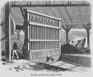 A stamp mill in Grass Valley, California during the California Gold Rush.